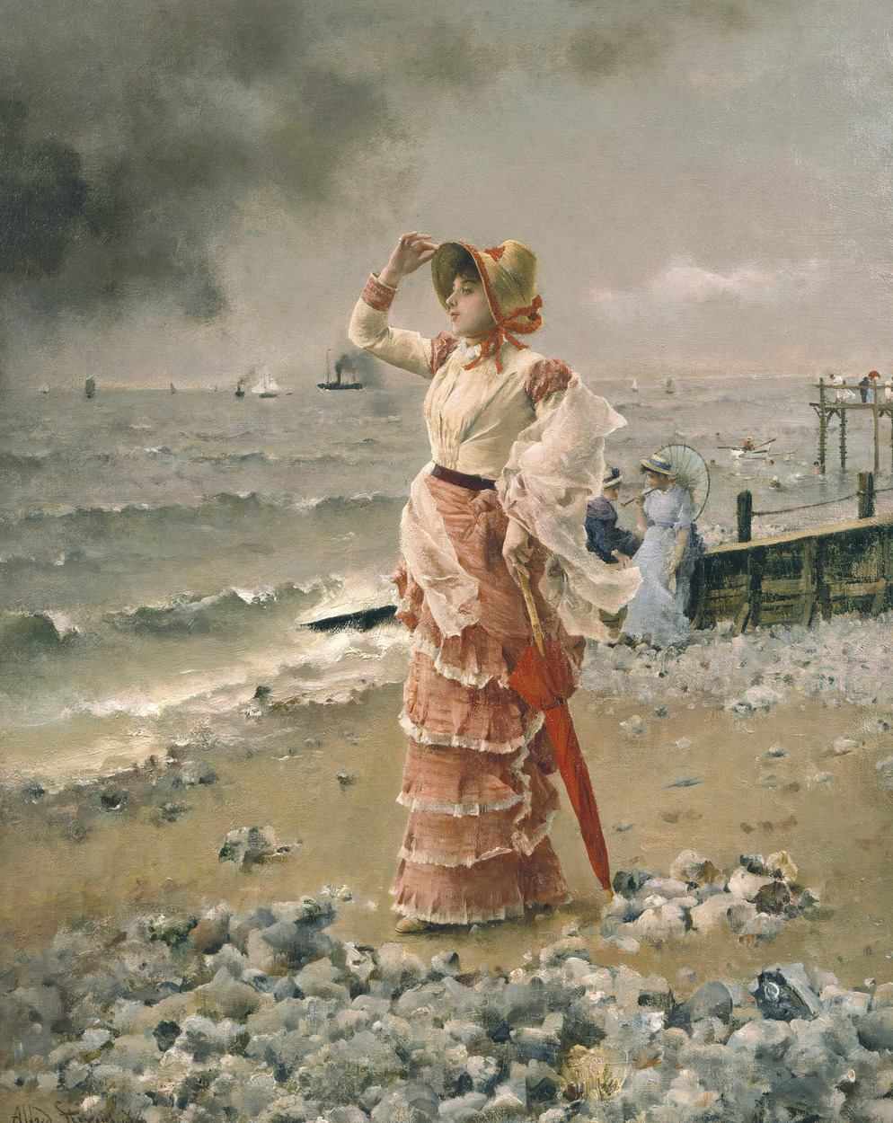 Femme Elegante Voyant Filer Un Vapeur